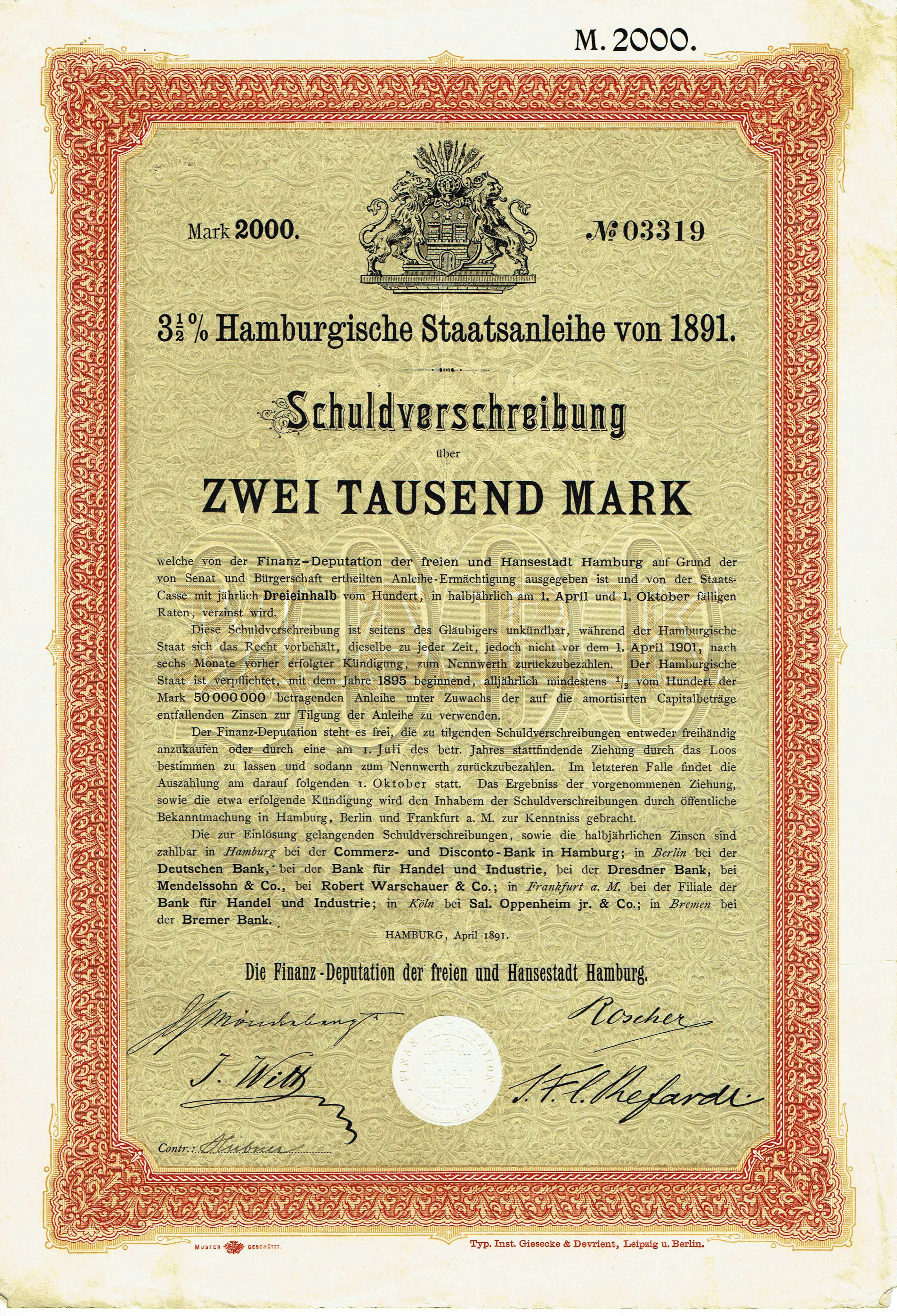 Bond of the City of Hamburg, issued April 1891